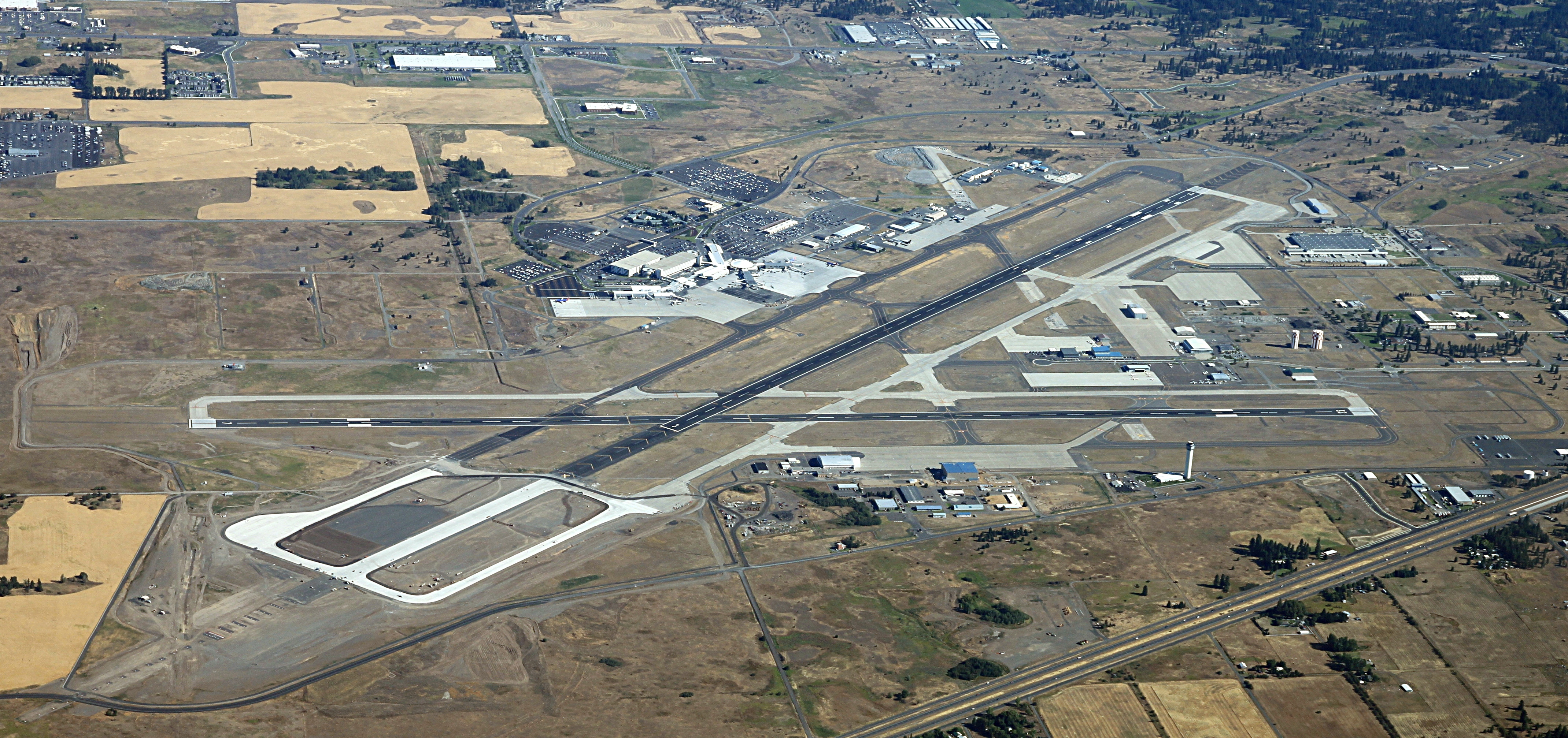 Spokane International Airport (GEG) viewed from the south, at 10,500' MSL.